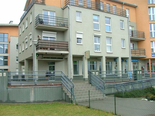 Poznan - Naramowice District. Naramowicka Street.